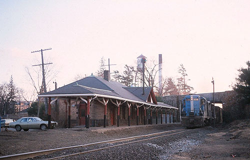 A B&M freight passes the abandoned Durham station in November 1976